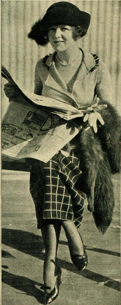 Pauline Garon, from a 1923 publication